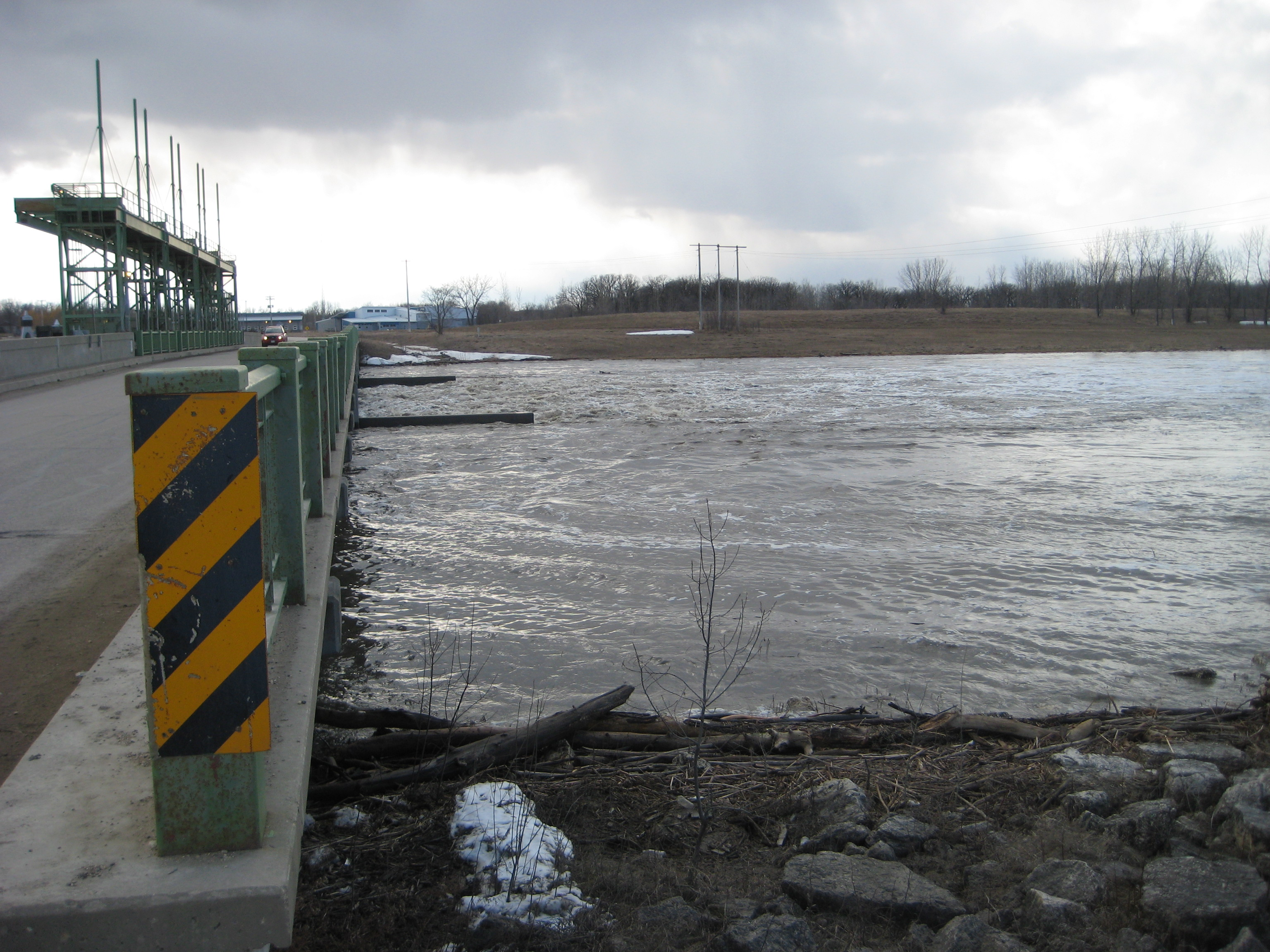 Portage Diversion operating at about max capacity (25000 cfs) from the gate